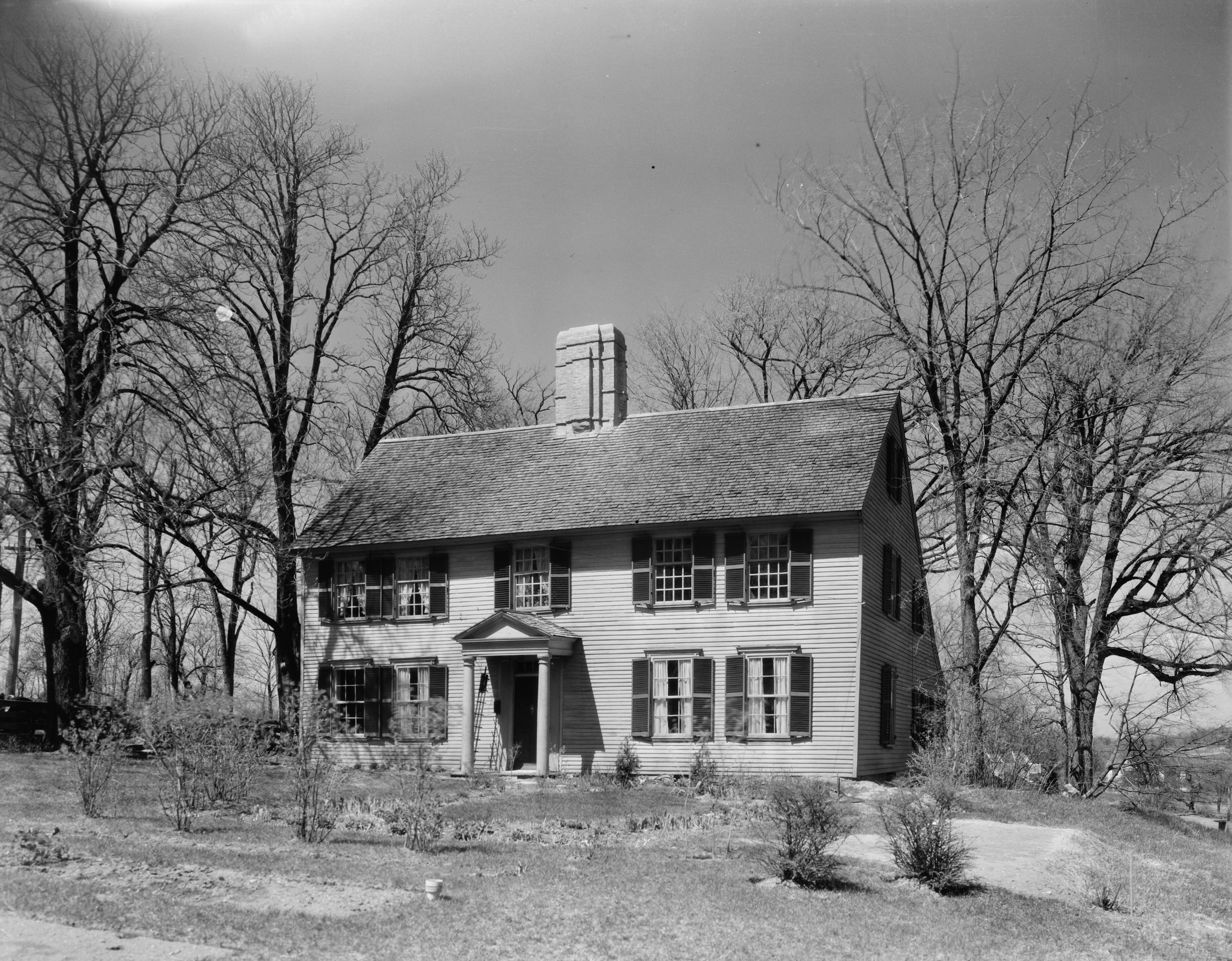 Photographic view of the 1715 Parson Barnard House, once thought to be the home of Massachusetts colonial Governor Simon Bradstreet, North Andover, Essex County, Massachusetts, seen from the southeast.